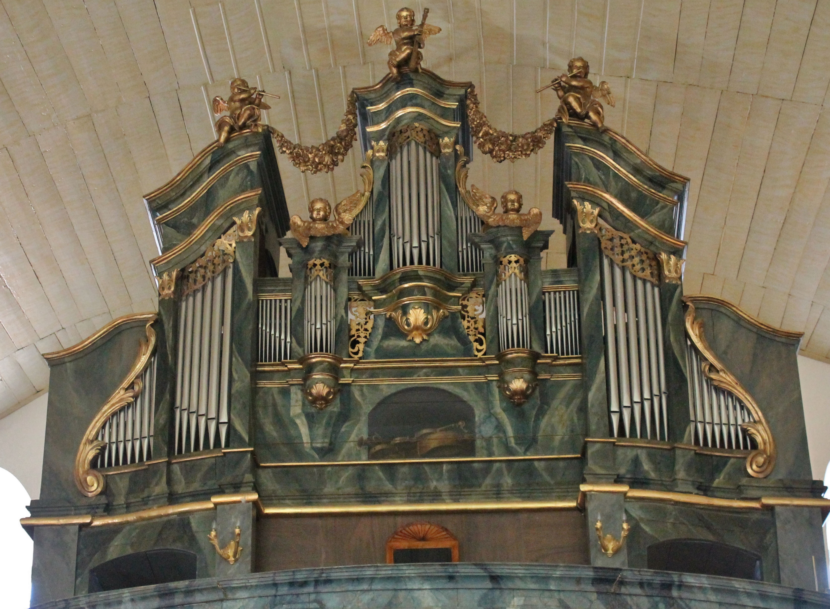 Döderhult Church. The organ